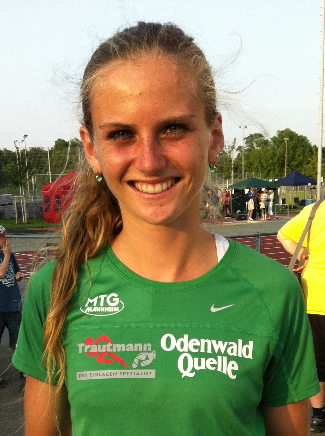 Amrhein